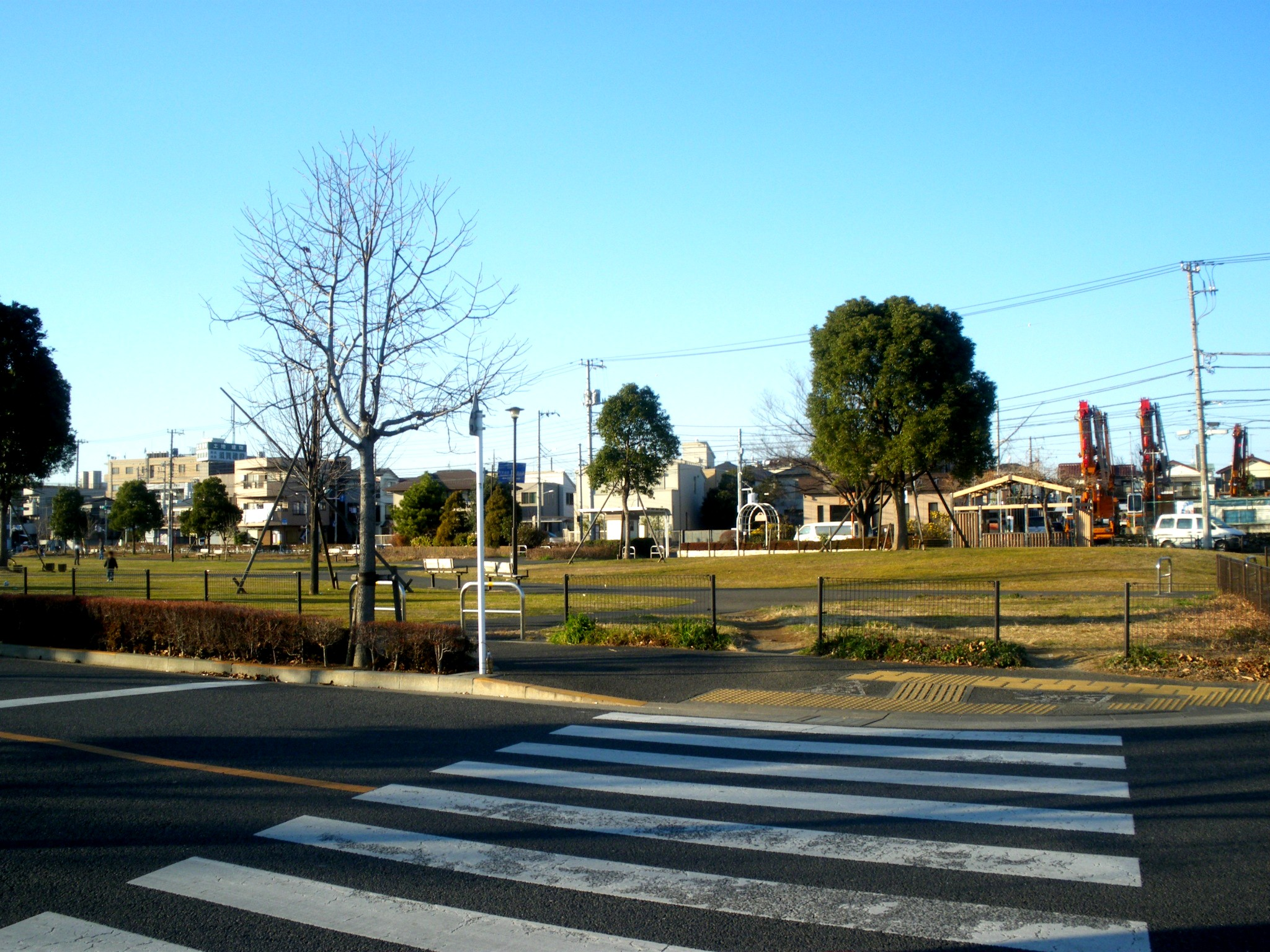 Shinozaki Park Area B in Edogawa Ward, Tokyo, Japan